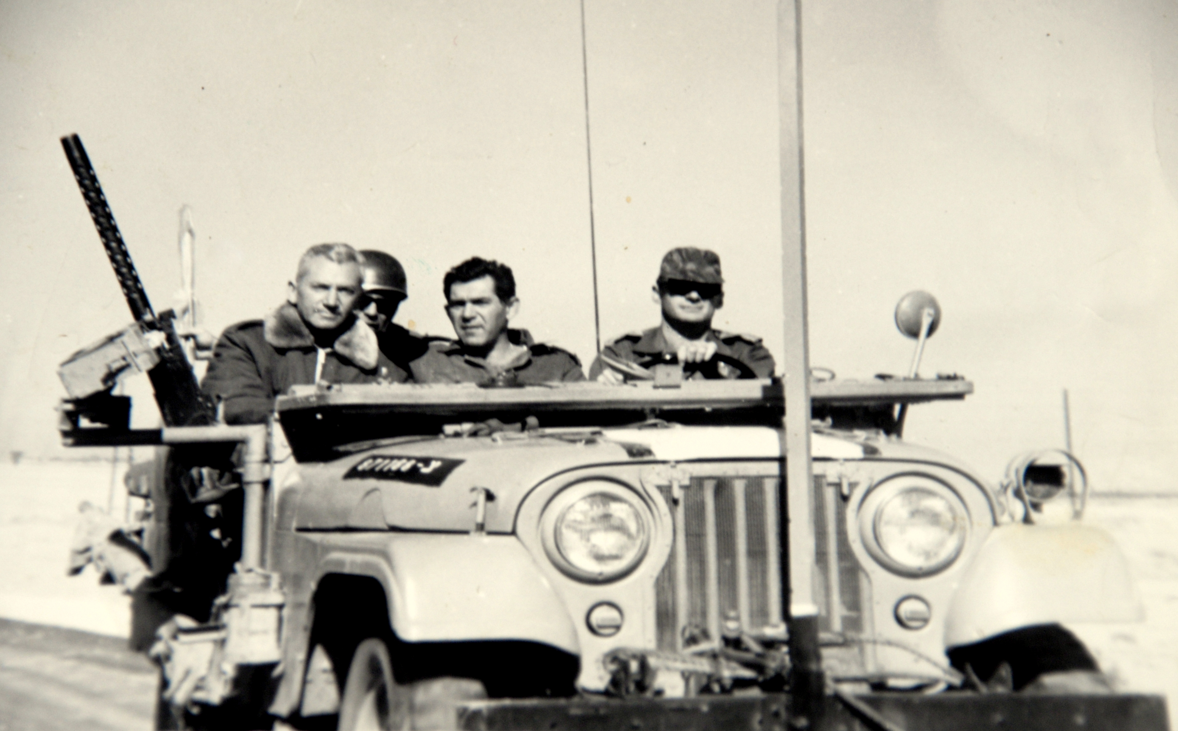 Israel Defense Forces